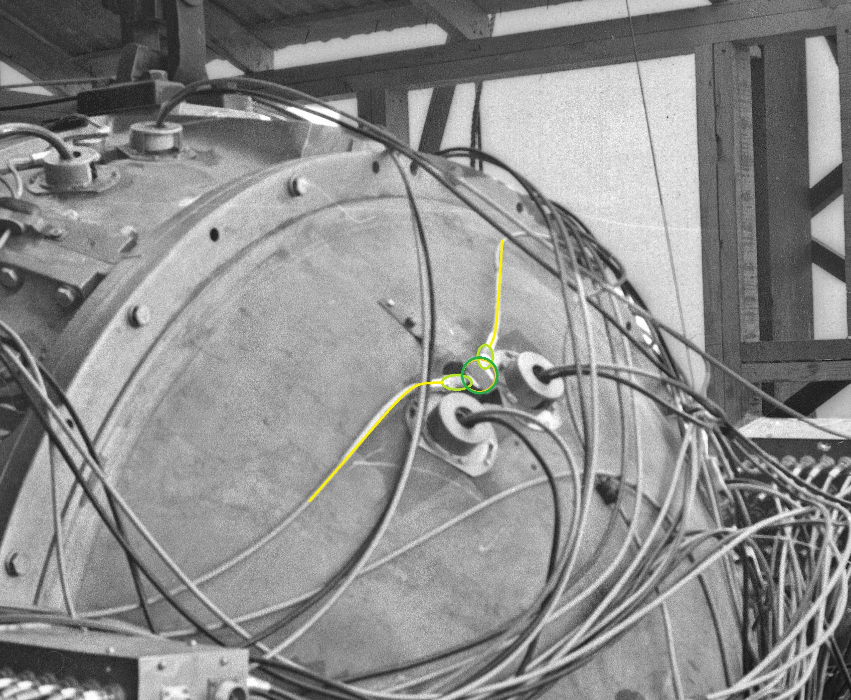 Closeup of the Gadget device at the Trinity test. The Y-shaped EBW detonators are highlighted in green (booster charge), light green (EBW arms), and yellow (EBW detonator wires).